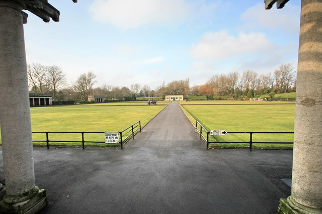 Bowling Greens in Stanley Park The columns make a rather splendid entrance.